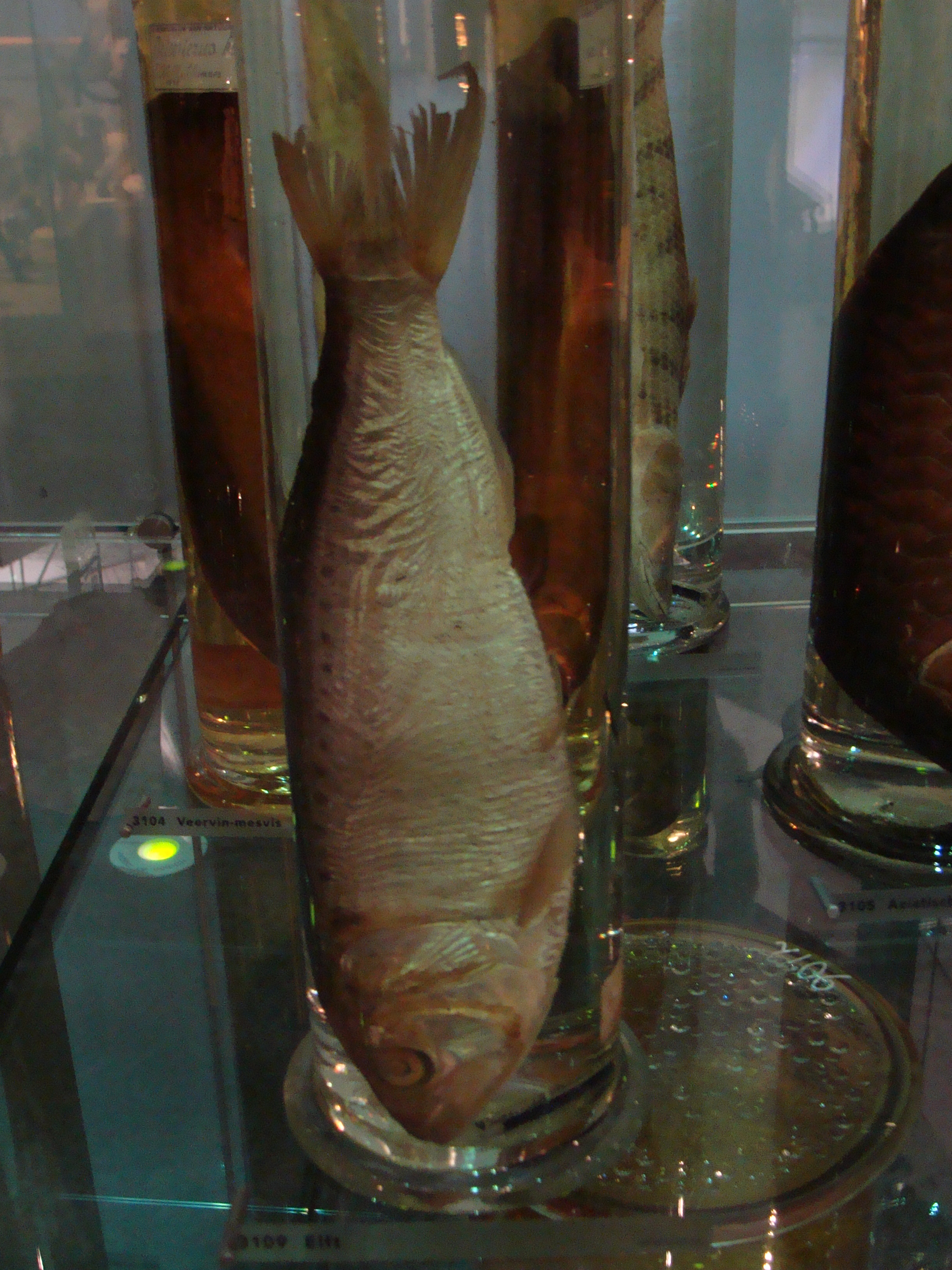 The allis shad (Alosa alosa) preserved in a jar with spirits in the National Museum of Natural History "Naturalis" in Leiden, the Netherlands. It is a species of fish in the Clupeidae family.